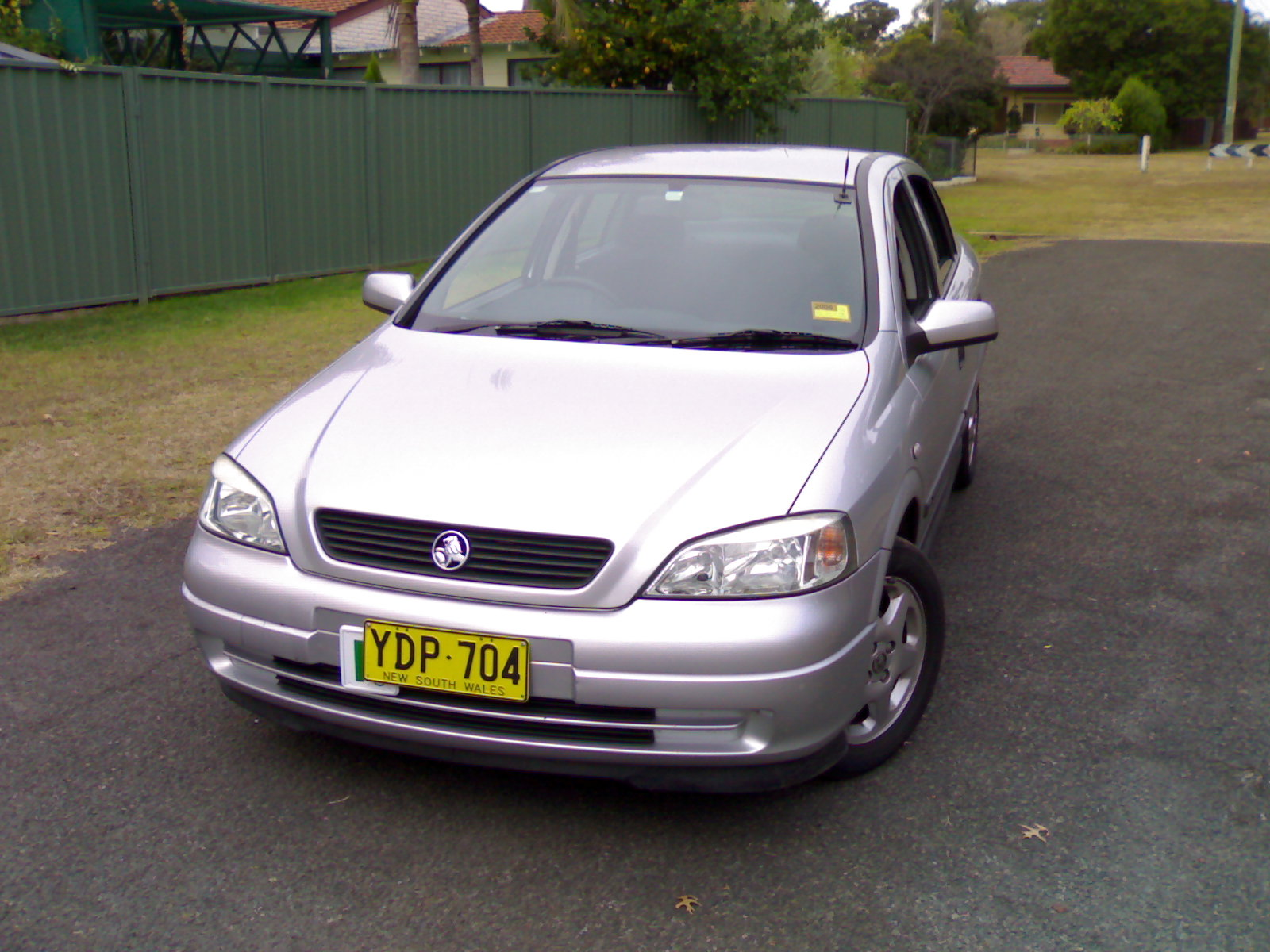 2000 Holden Astra (TS) CD, photographed in New South Wales, Australia.